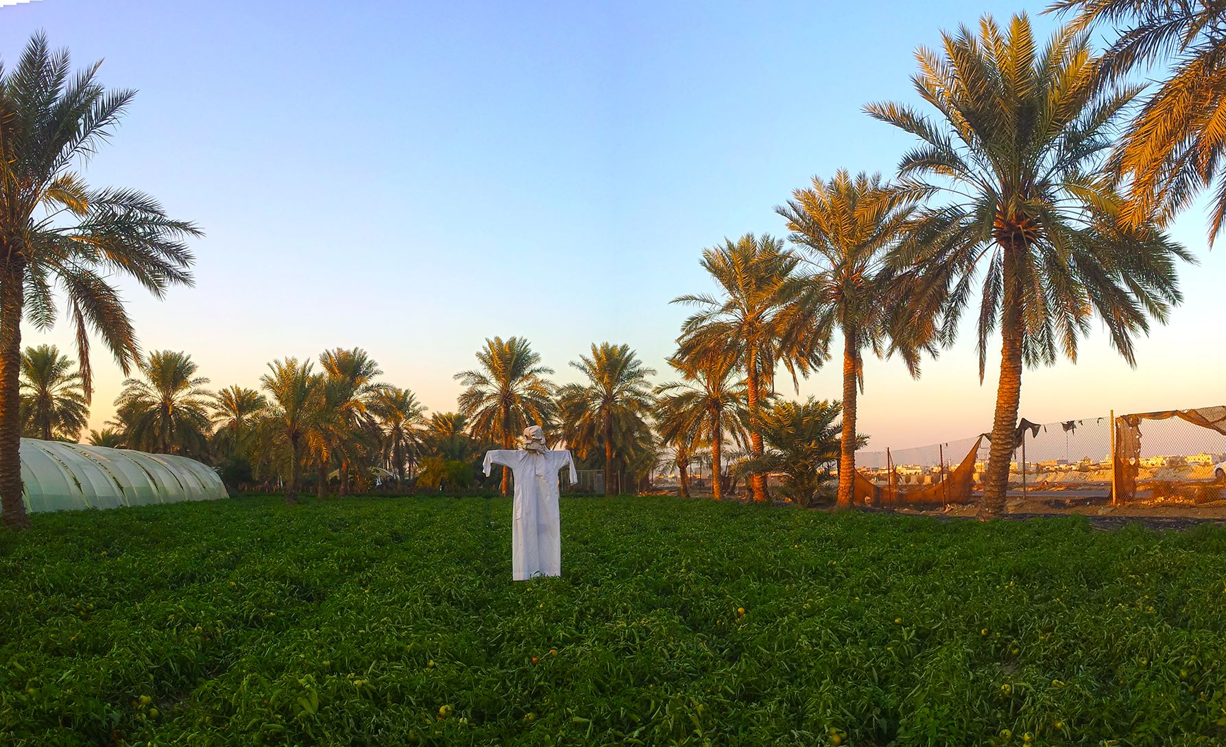 Agricultural Field in Qatif